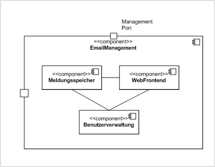 Component diagram